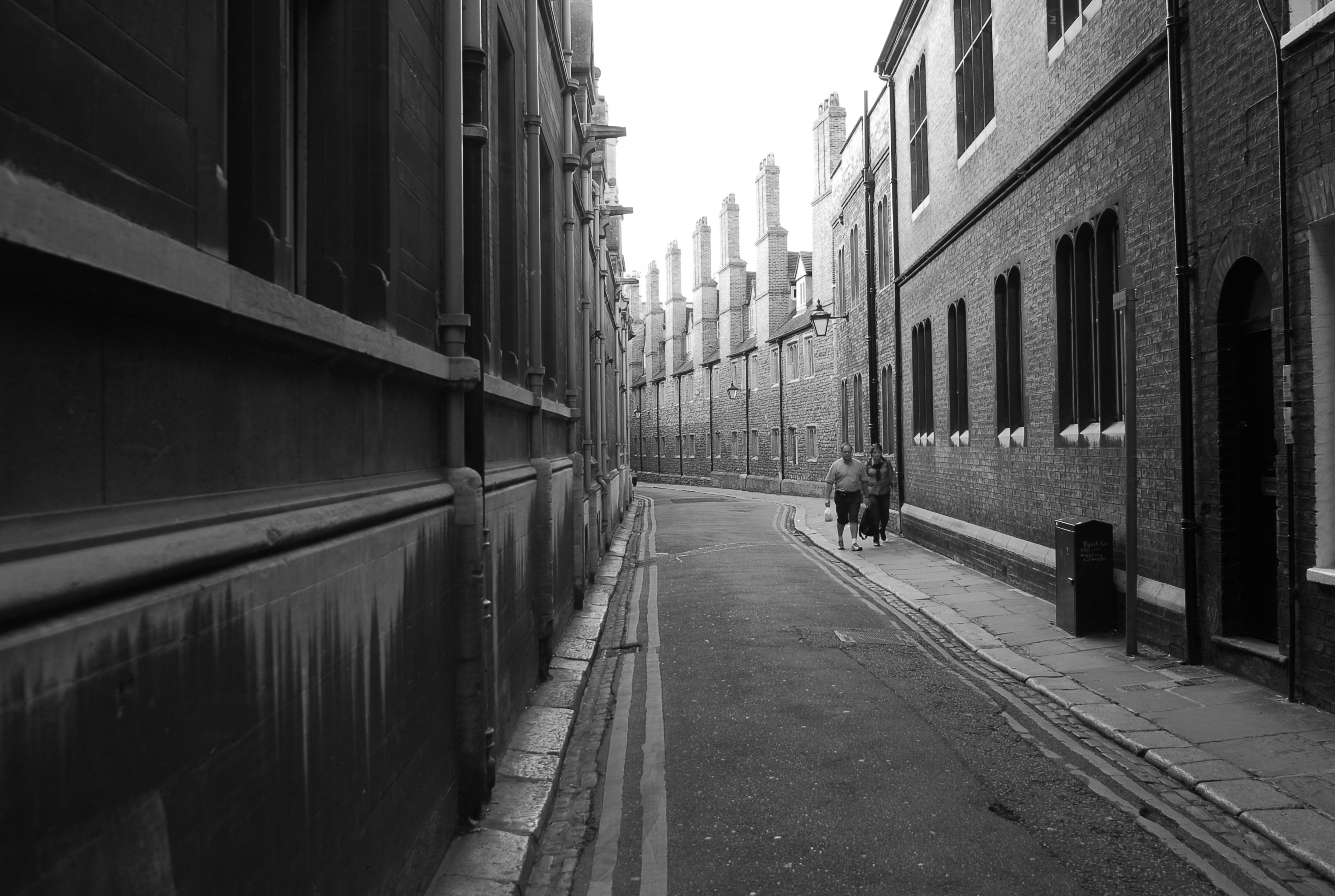 Trinity Lane, Cambridge